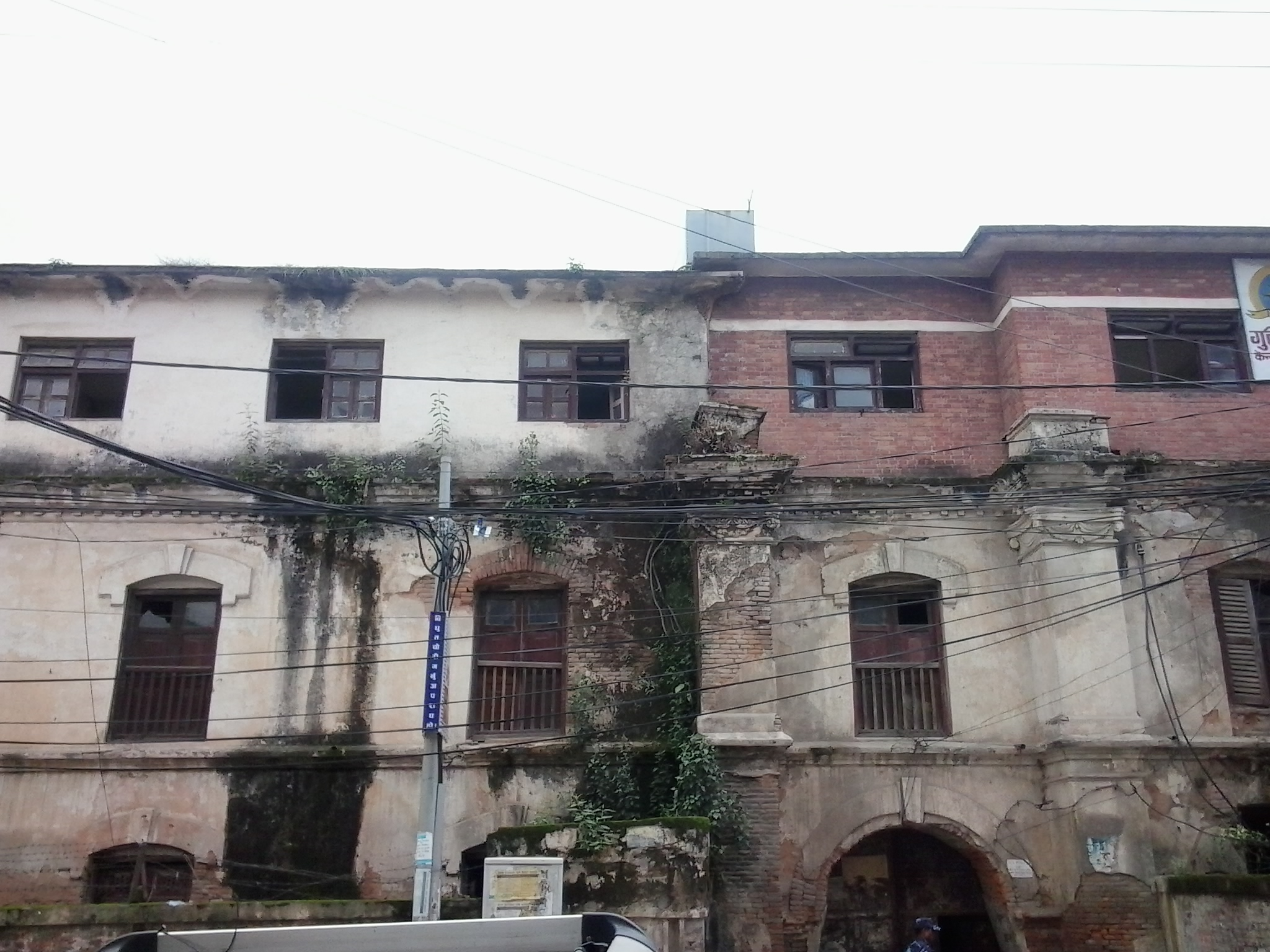 it is dillibazar jail located in kathmandu